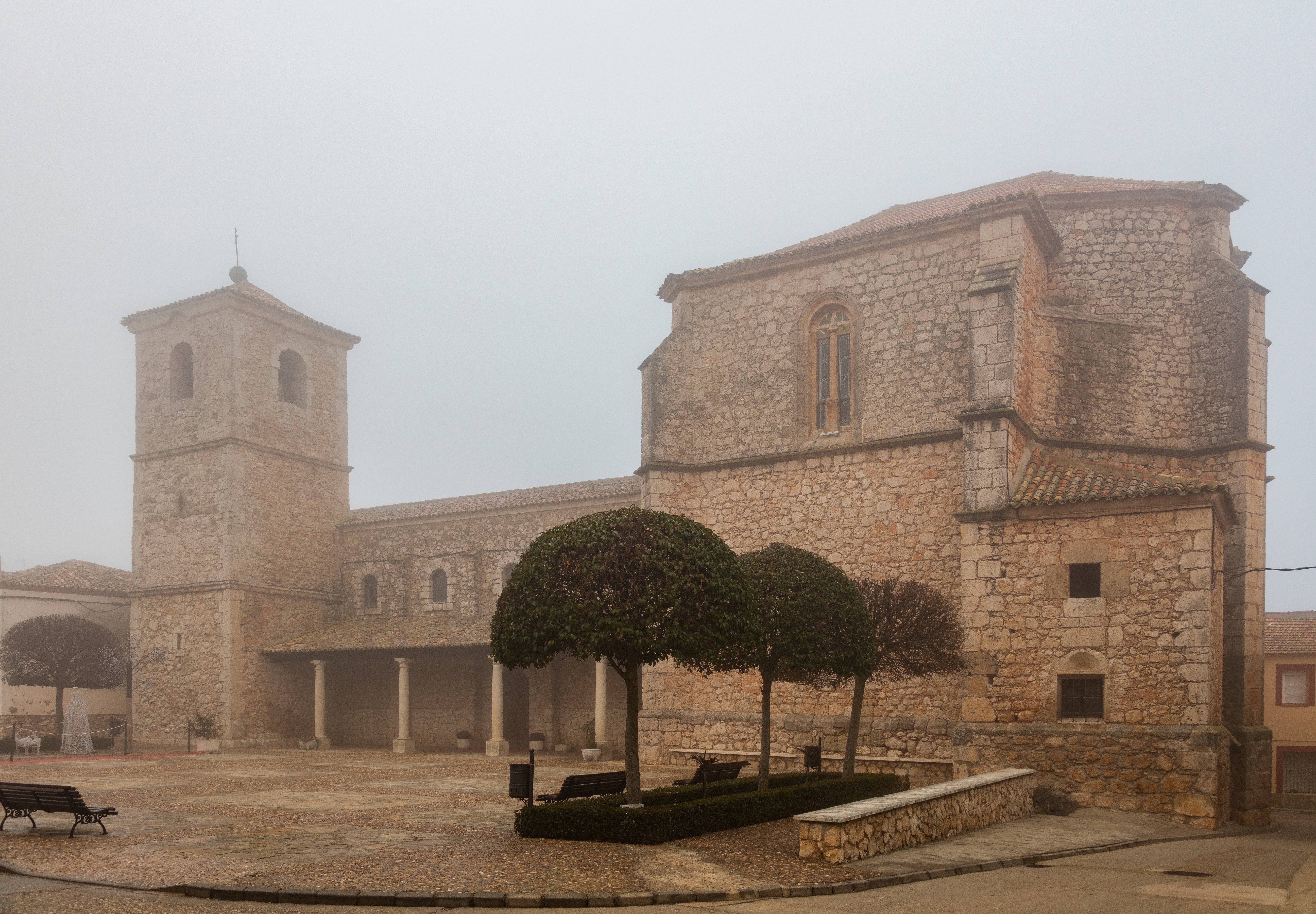 Church, Fuentenovilla, Guadalajara, Spain